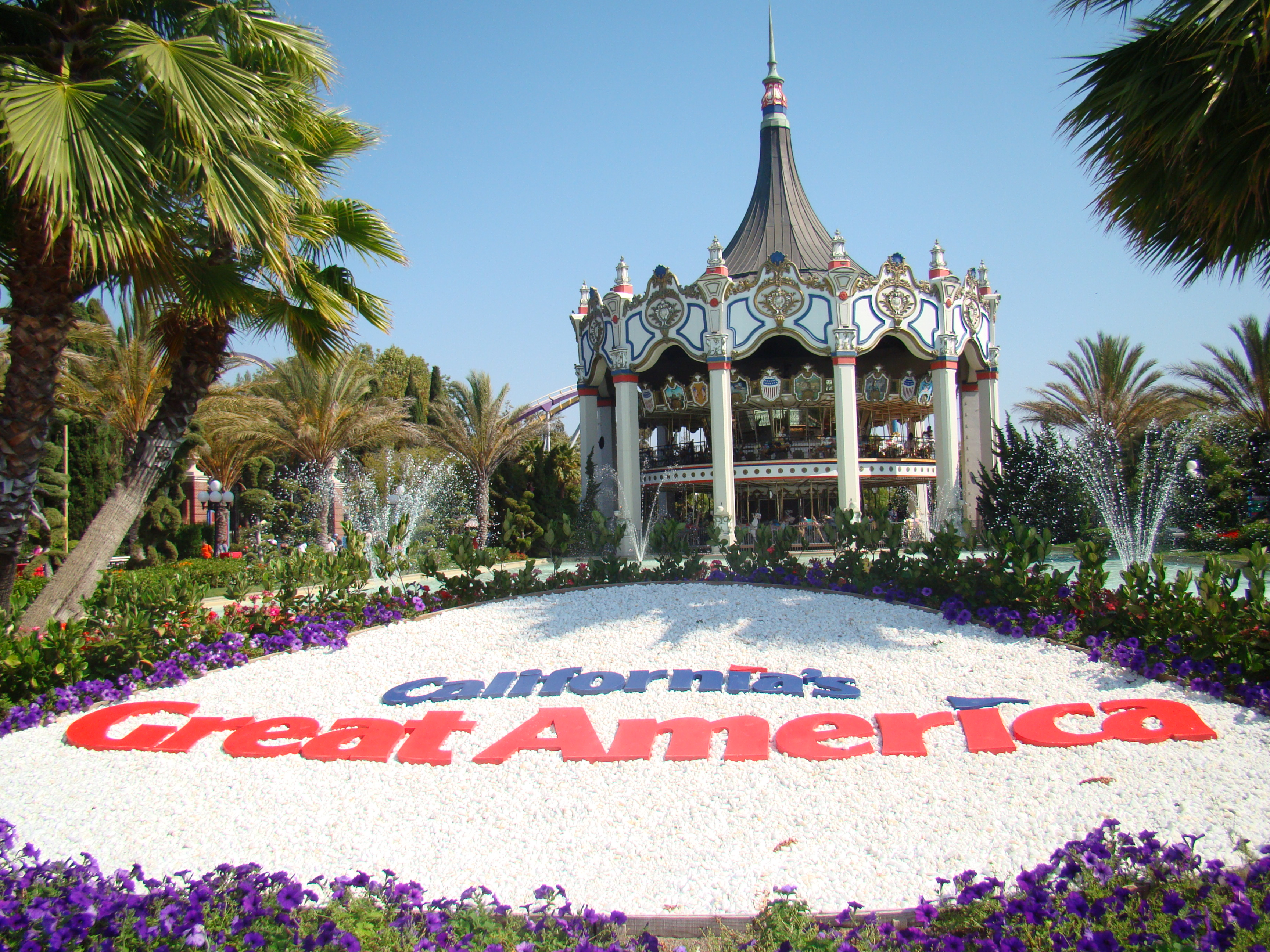 California's Great America. Carousel Columbia in background.